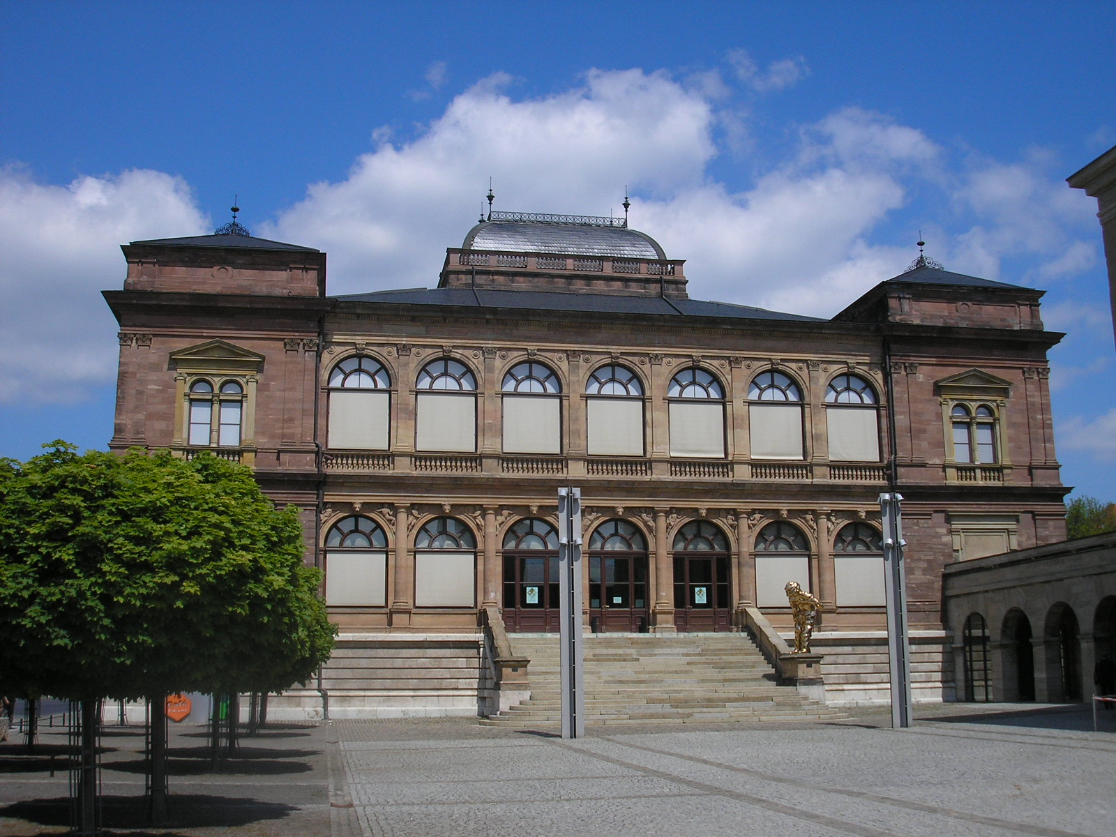 Neue Museum (New Museum) at Weimar, Germany